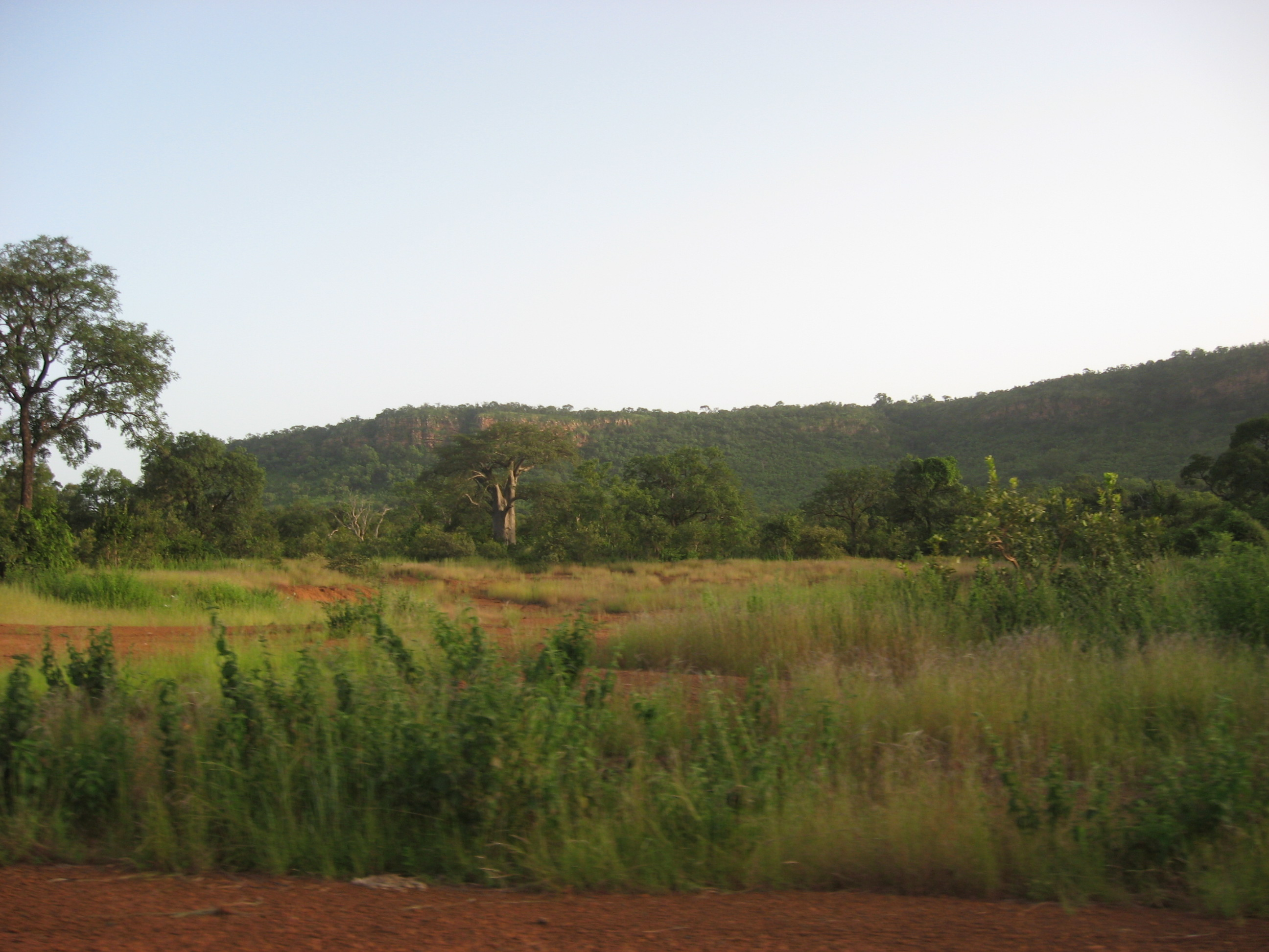 On the road to Dimboli (Kedougou region, Senegal)